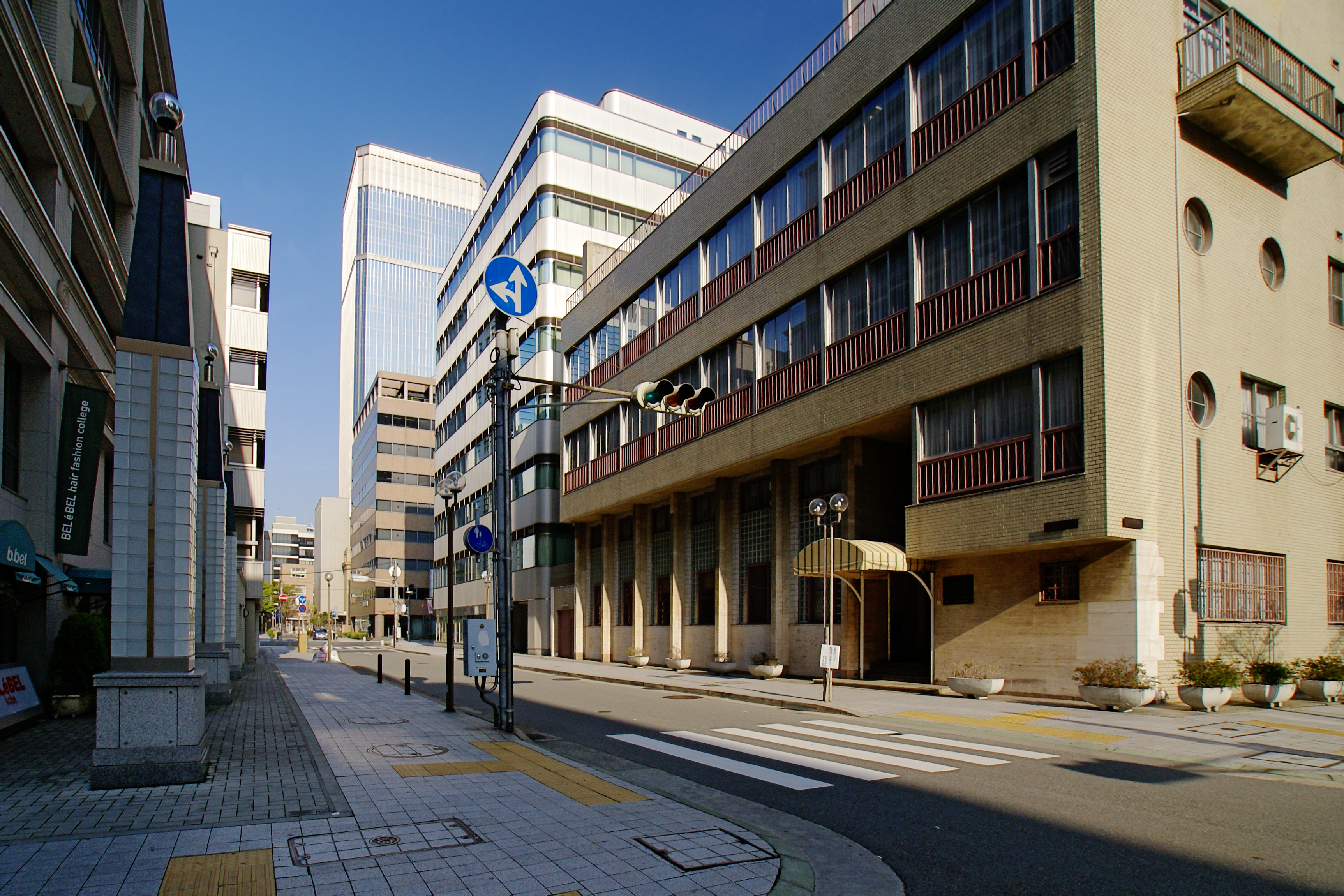 Kitamachi-street in Kyukyoryuchi (Former Foreign Settlement of Kobe), Kobe, Hyogo prefecture, Japan